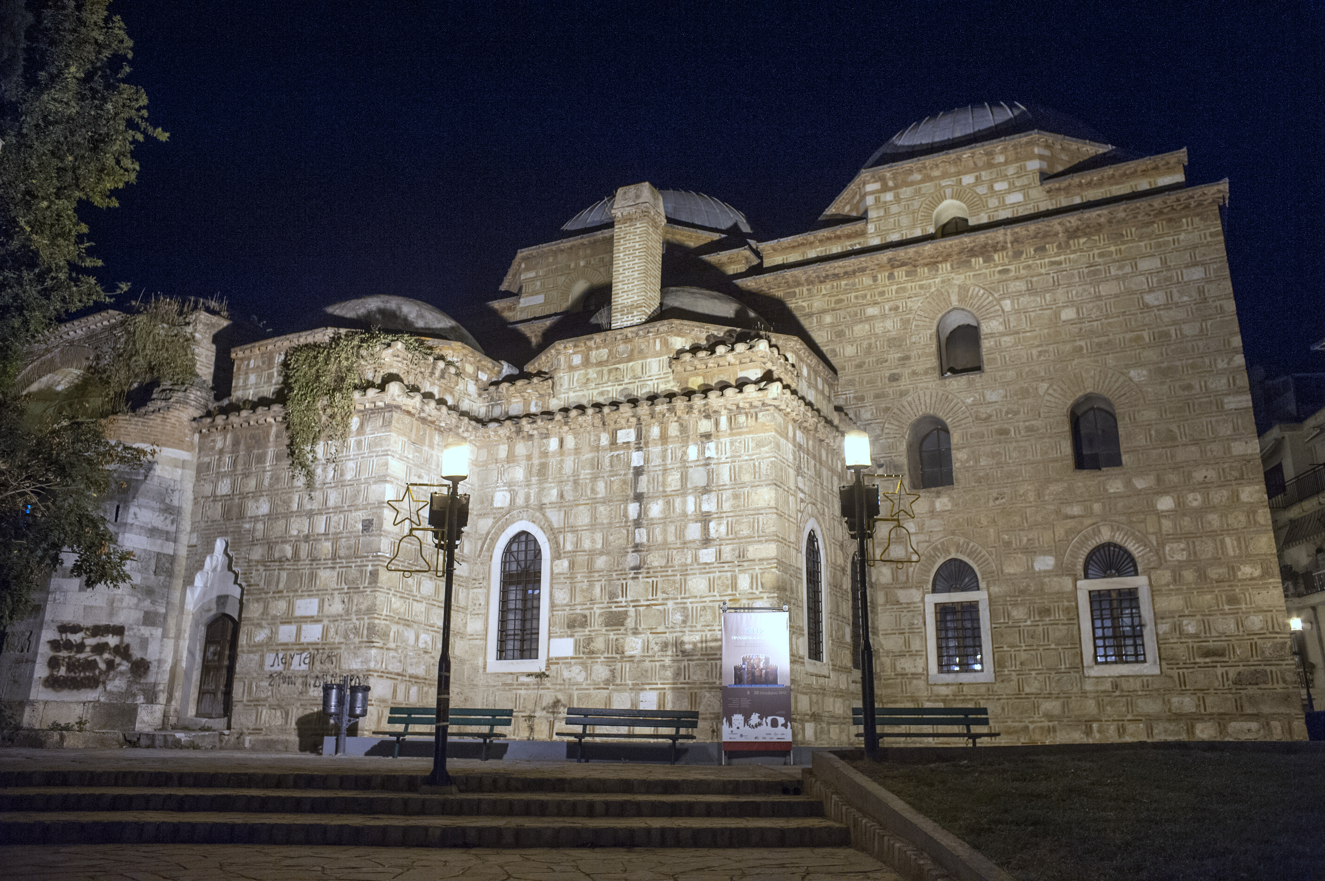 Alaca Imaret Mosque, Thessaloniki, Greece.